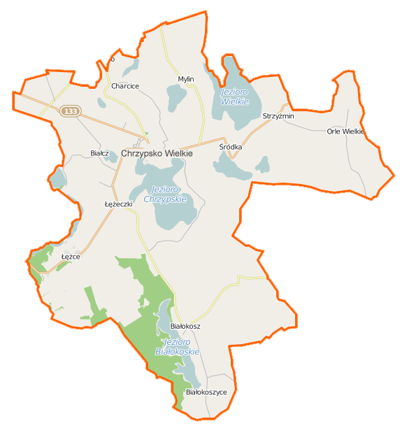 Map of Gmina Chrzypsko Wielkie, Poland This map of Chrzypsko Wielkie (gmina) was created from OpenStreetMap project data, collected by the community. This map may be incomplete, and may contain errors. Don't rely solely on it for navigation. Border coordinates52.672816.1448←↕→16.344752.5435